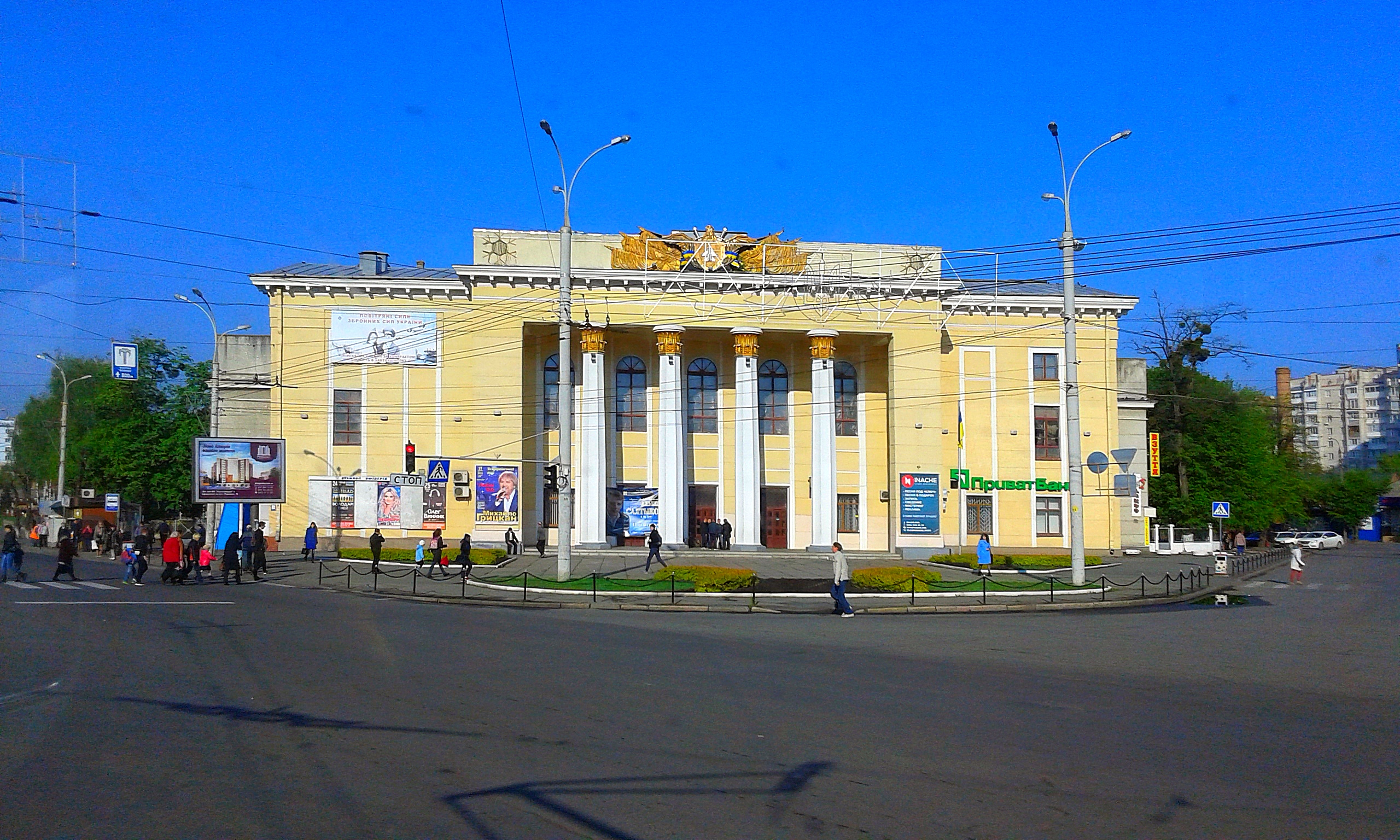 (4) CONCERT HALL IN CITY OF VINNYTSIA STATE OF UKRAINE PHOTOGRAPH BY VIKTOR O LEDENYOV 20160427